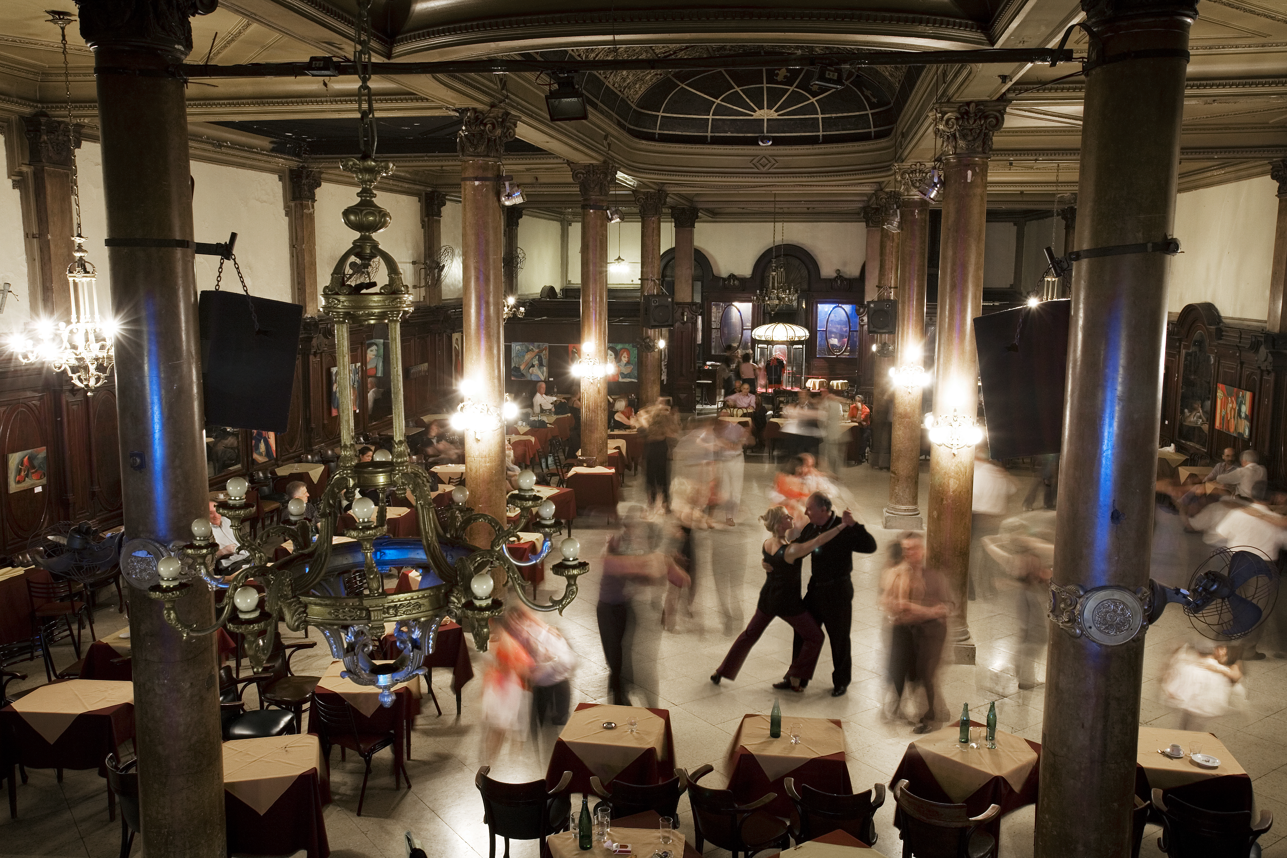 Confitería La Ideal, a classic tango dance ballroom in Buenos Aires, Argentina.